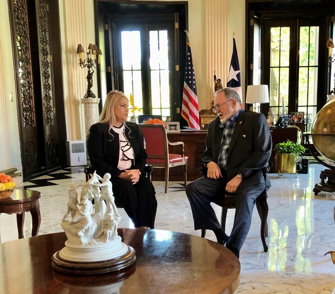 Just had a very productive meeting with Governor of Puerto Rico @wandavazquezg. We covered many topics, including statehood and ongoing disaster recovery efforts. Thank you to the Governor for hosting me!